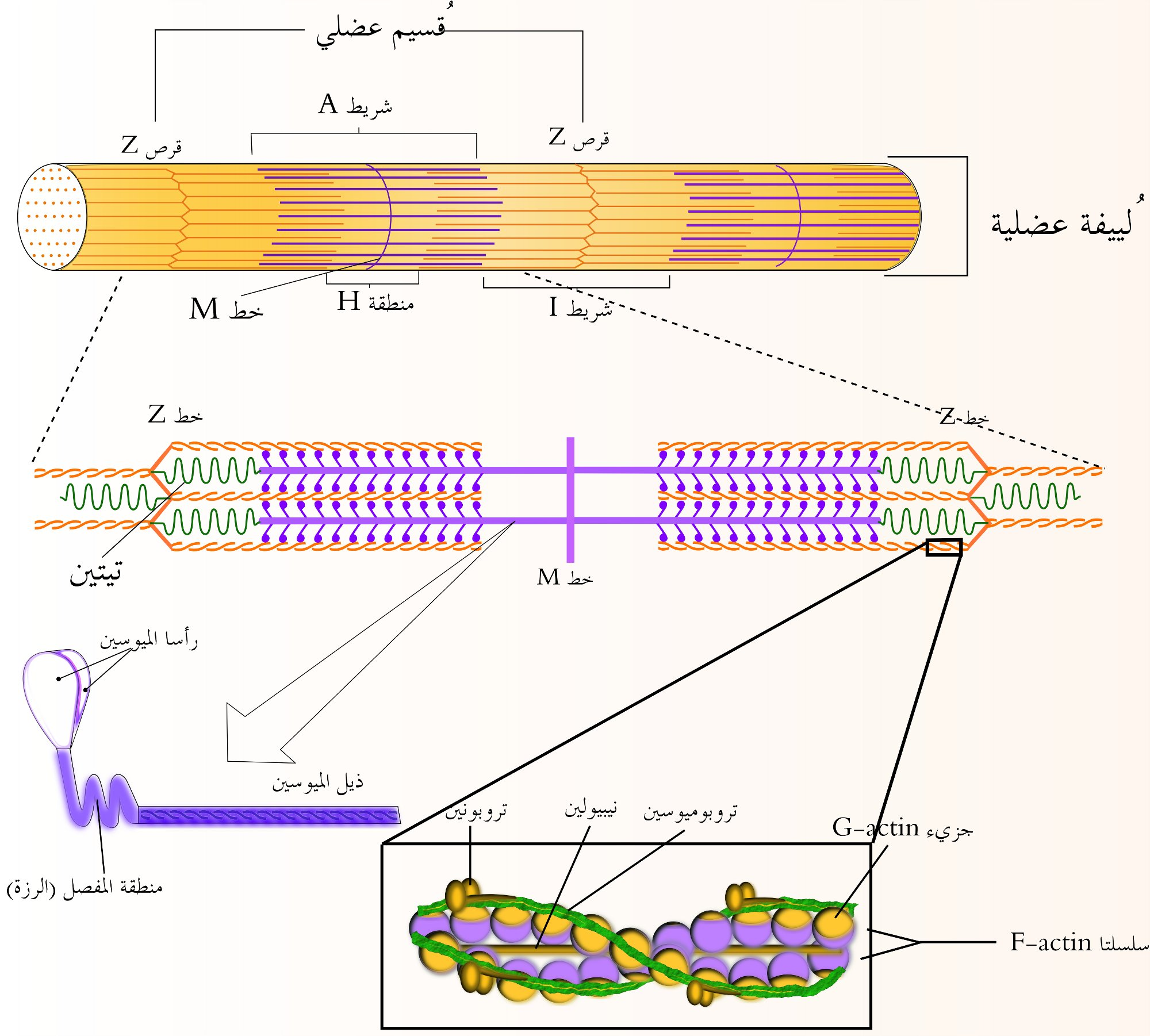 صورة عن تركيب اللييف العضلي والبروتينات الداخلة في تركيبه وتوضيح للقسيم العضلي ومكوناته وترتيبها في اللييف